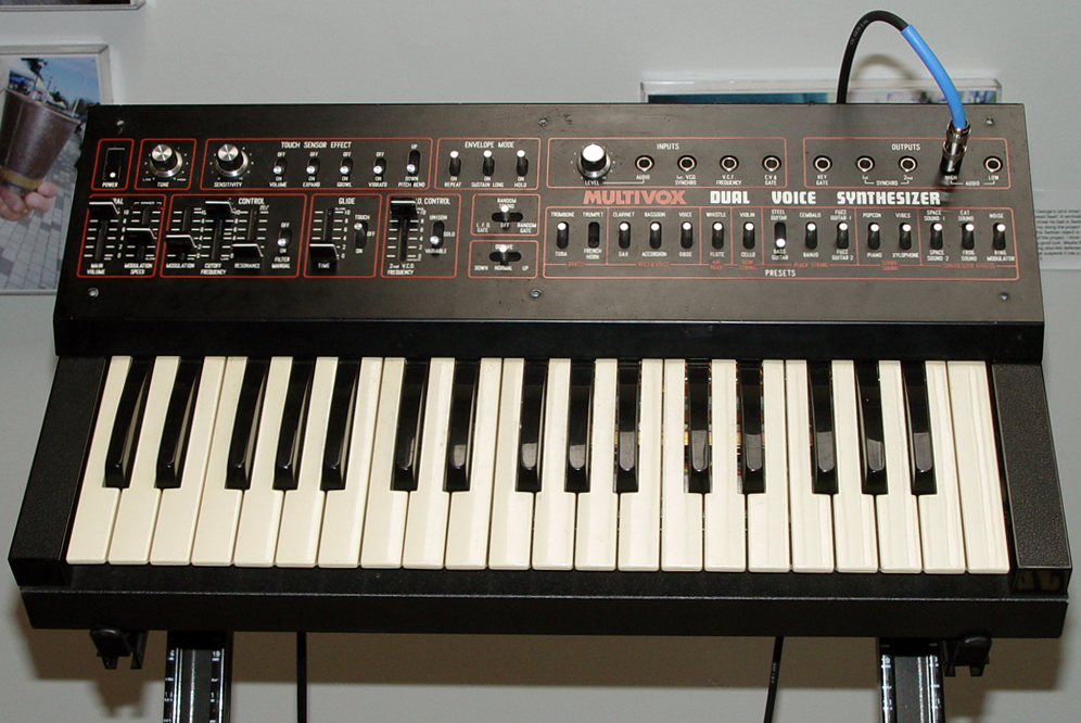 Multivox MX-75 Dual Voice Synthesizer (Pulser M-75) exactly like that weird hillman thing